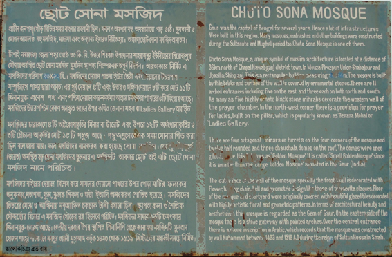 Short history of Sona Masjid